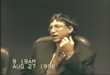 Color image of Bill Gates giving his deposition during United States v. Microsoft Corp.